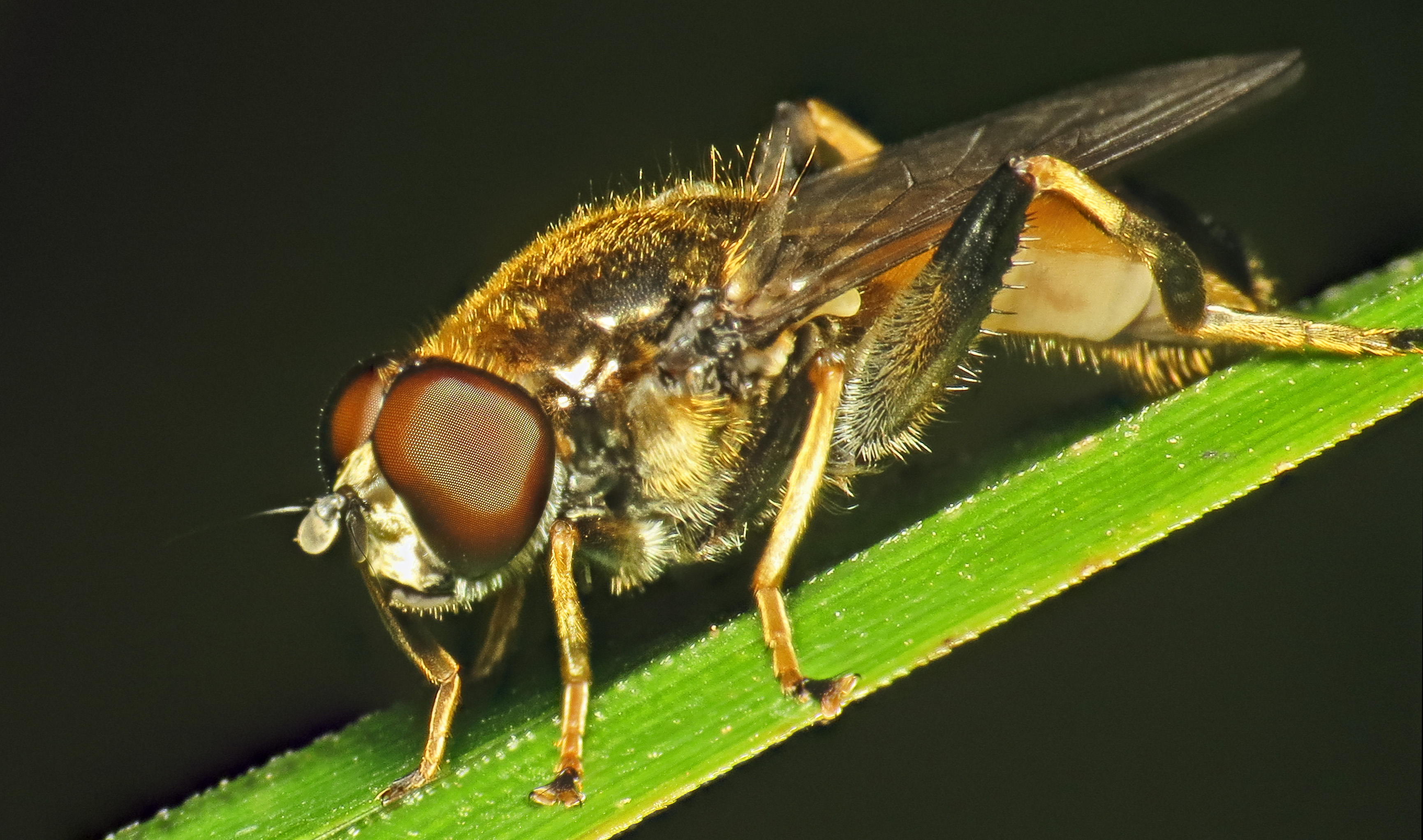 Xylota segnis (male) Ipswich, East Suffolk TM16644502 1-Apr-2014 On Sedge (Carex) near garden pond.